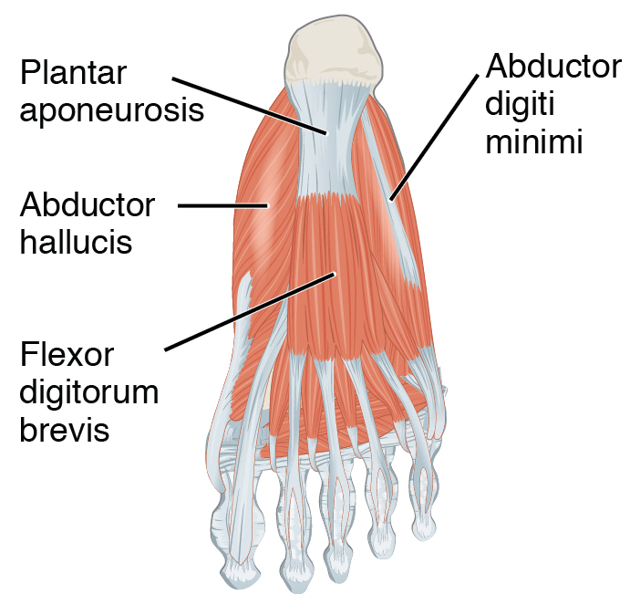 Caption: The muscles along the dorsal side of the foot (a) generally extend the toes while the muscles of the plantar side of the foot (b, c, d) generally flex the toes. The plantar muscles exist in three layers, providing the foot the strength to counterbalance the weight of the body. In this diagram, these three layers are shown from a plantar view beginning with the bottom-most layer just under the plantar skin of the foot (b) and ending with the top-most layer (d) located just inferior to the foot and toe bones. URL: Other versions